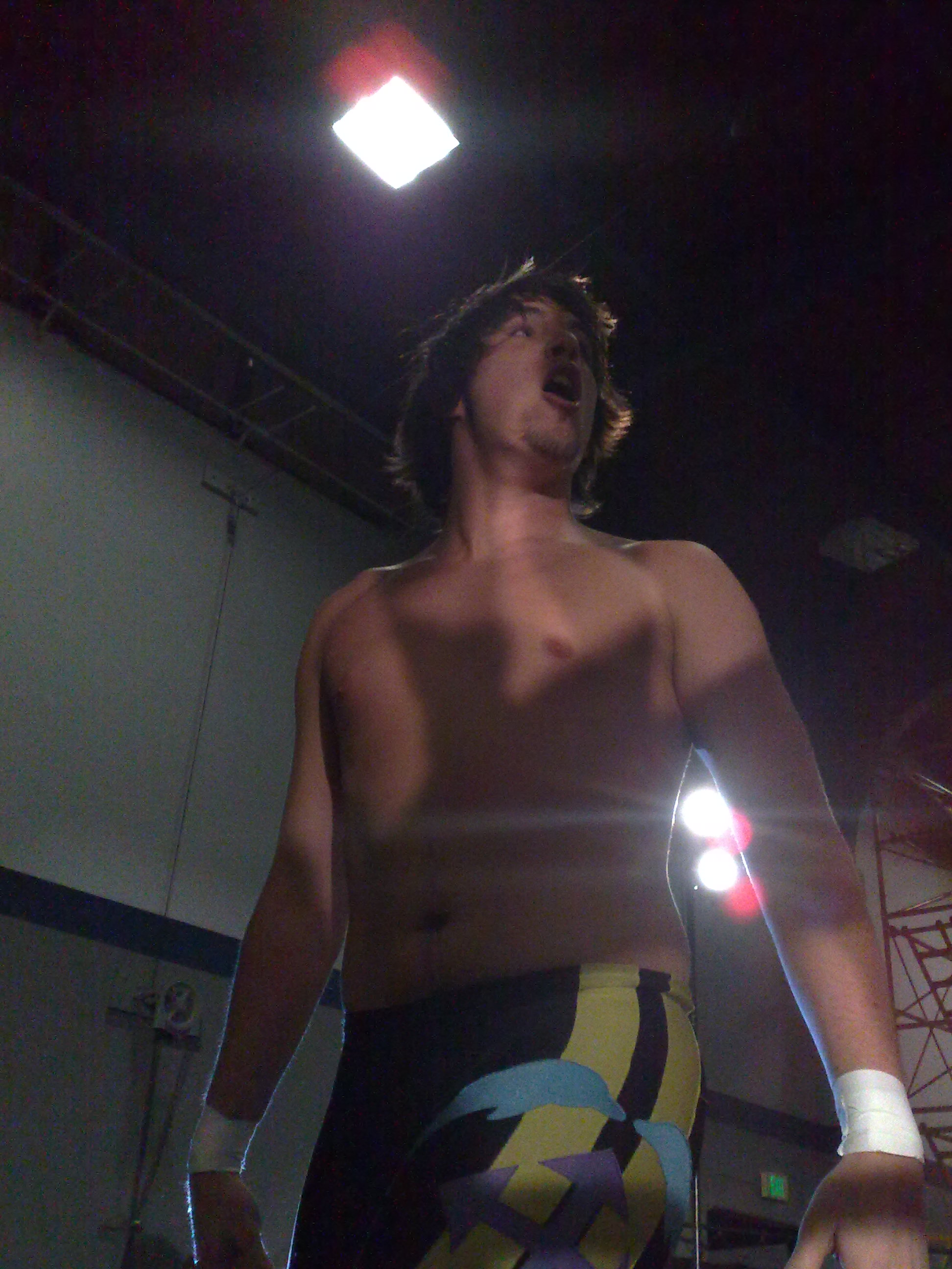 Chuck Taylor at PWG BOLA 2008